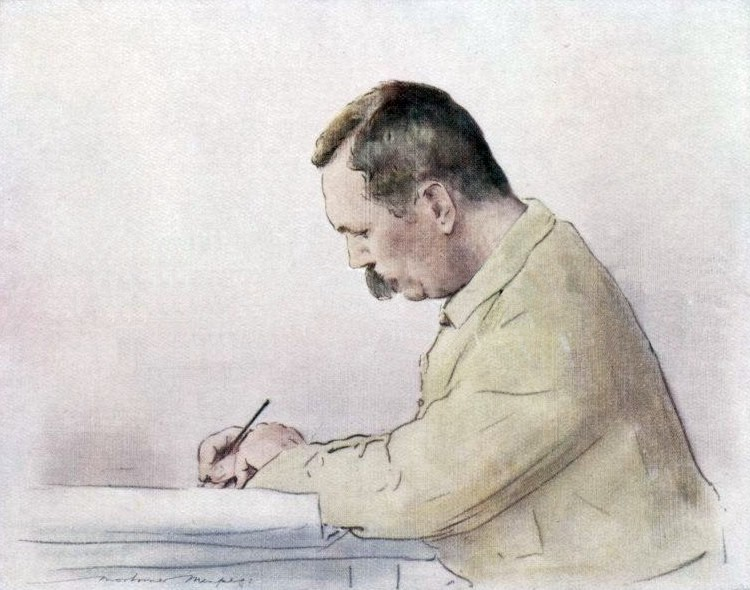 Sir Arthur Conan Doyle (1859-1930)